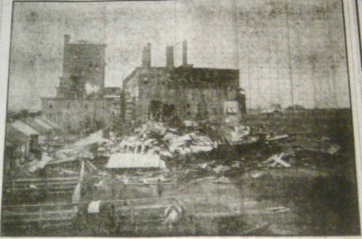 Sugar Refinery, Gramercy, Louisiana; damaged by the September 1909 hurricane.